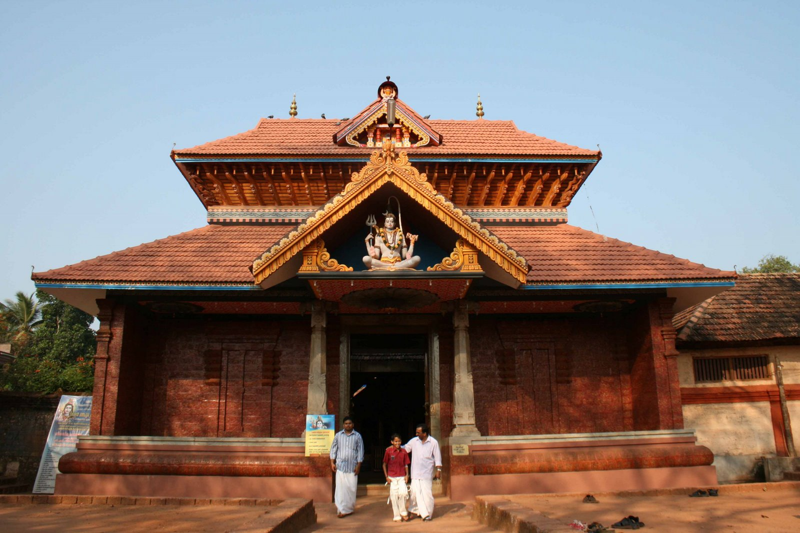 Thaliyil Shiva Temple